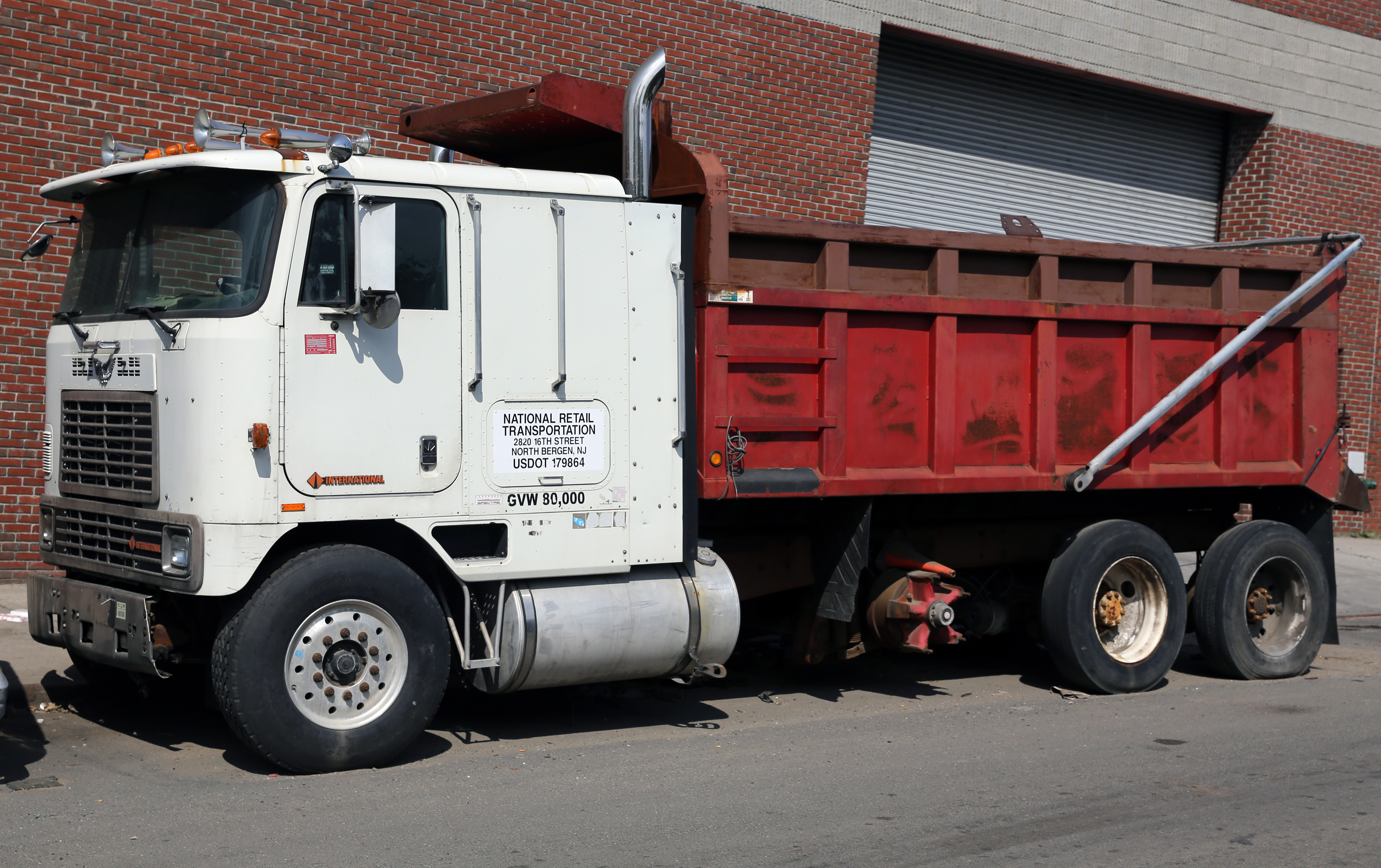 An International 9600 cab-over truck. A sleeper cab dumper with three axles - or maybe four, there is a weird part of a Trilex hub showing ahead of the two rear axles. On its way to the big parking lot in the sky.